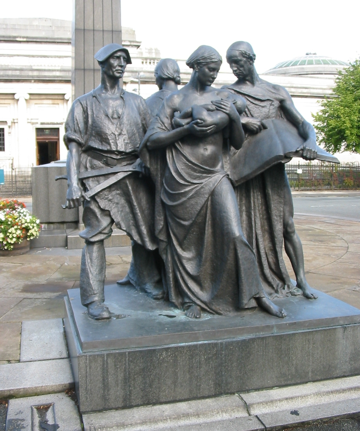 The Leverhulme Memorial at Port Sunlight, Wirral, England.